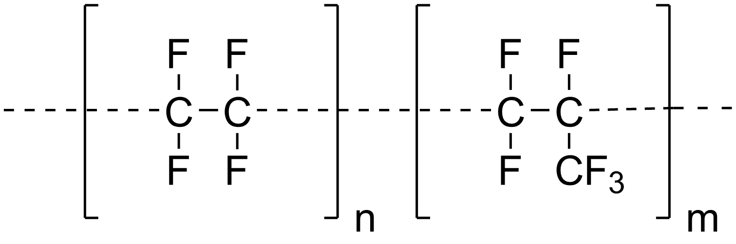 Chemical structure of fluorinated ethylene propylene copolymer